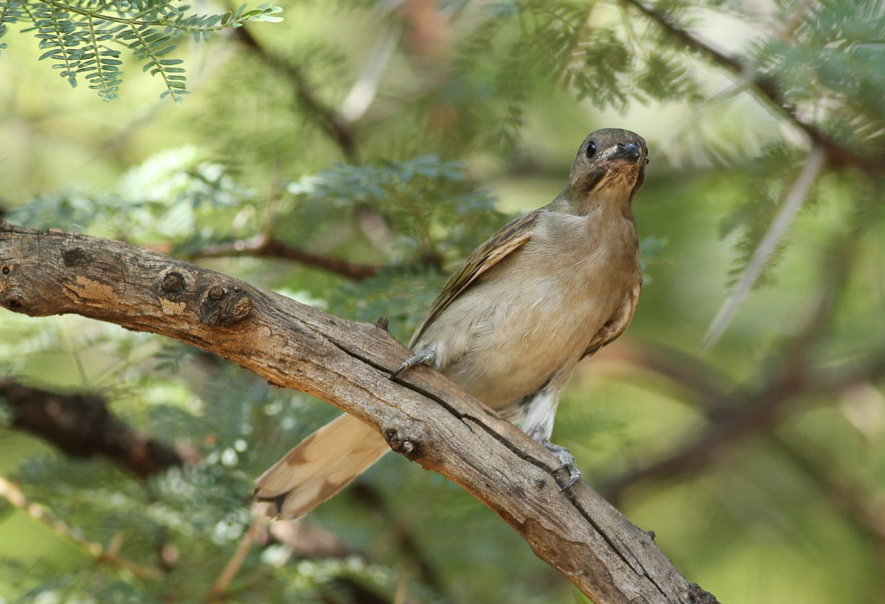 Lesser honeyguide, Indicator minor, at Pilanesberg National Park, South Africa